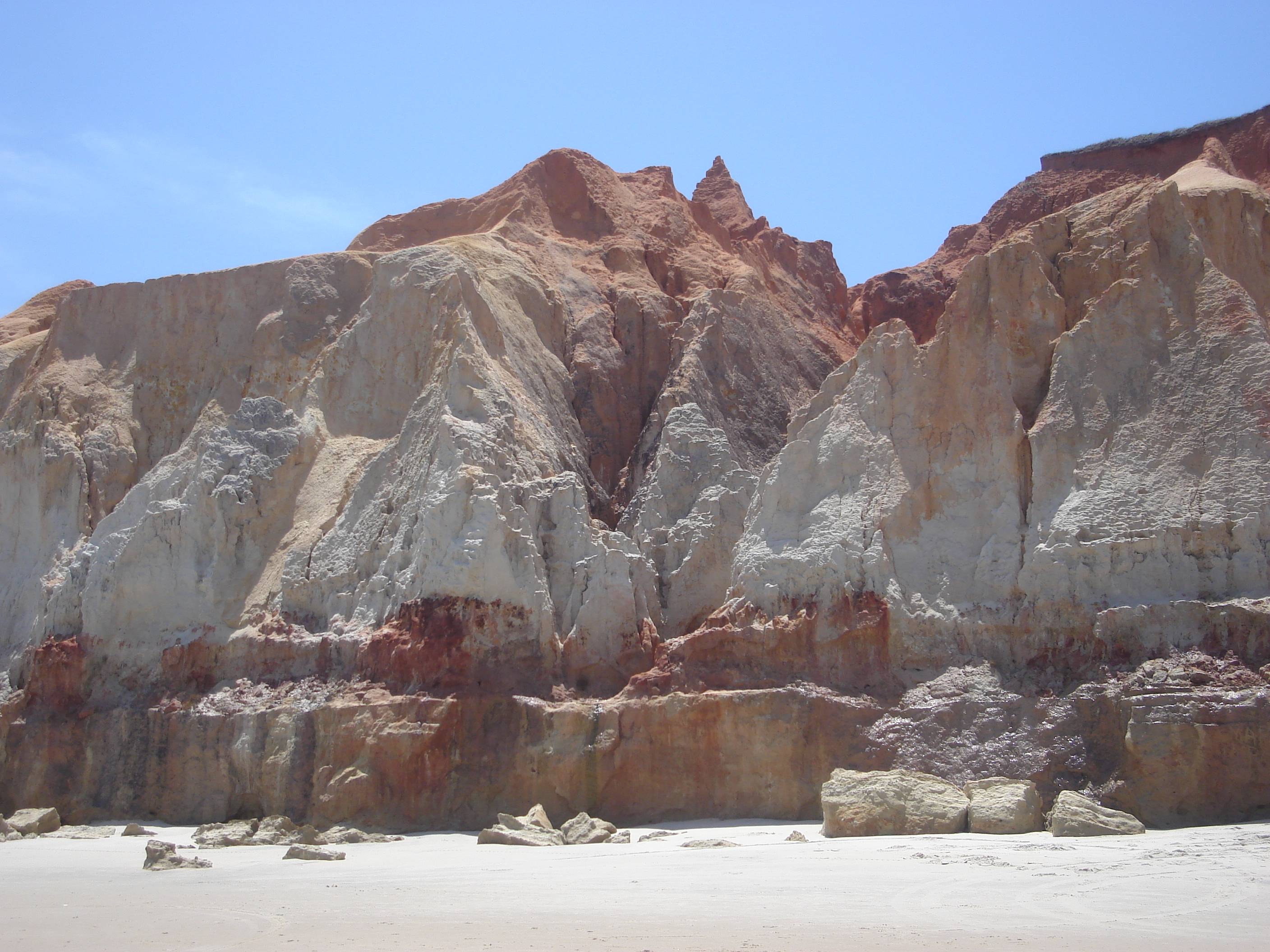 Monumento Natural Falesias de Beberibe, Ceará, Brazil - Beberibe Cliff in Ceará State, Brazil